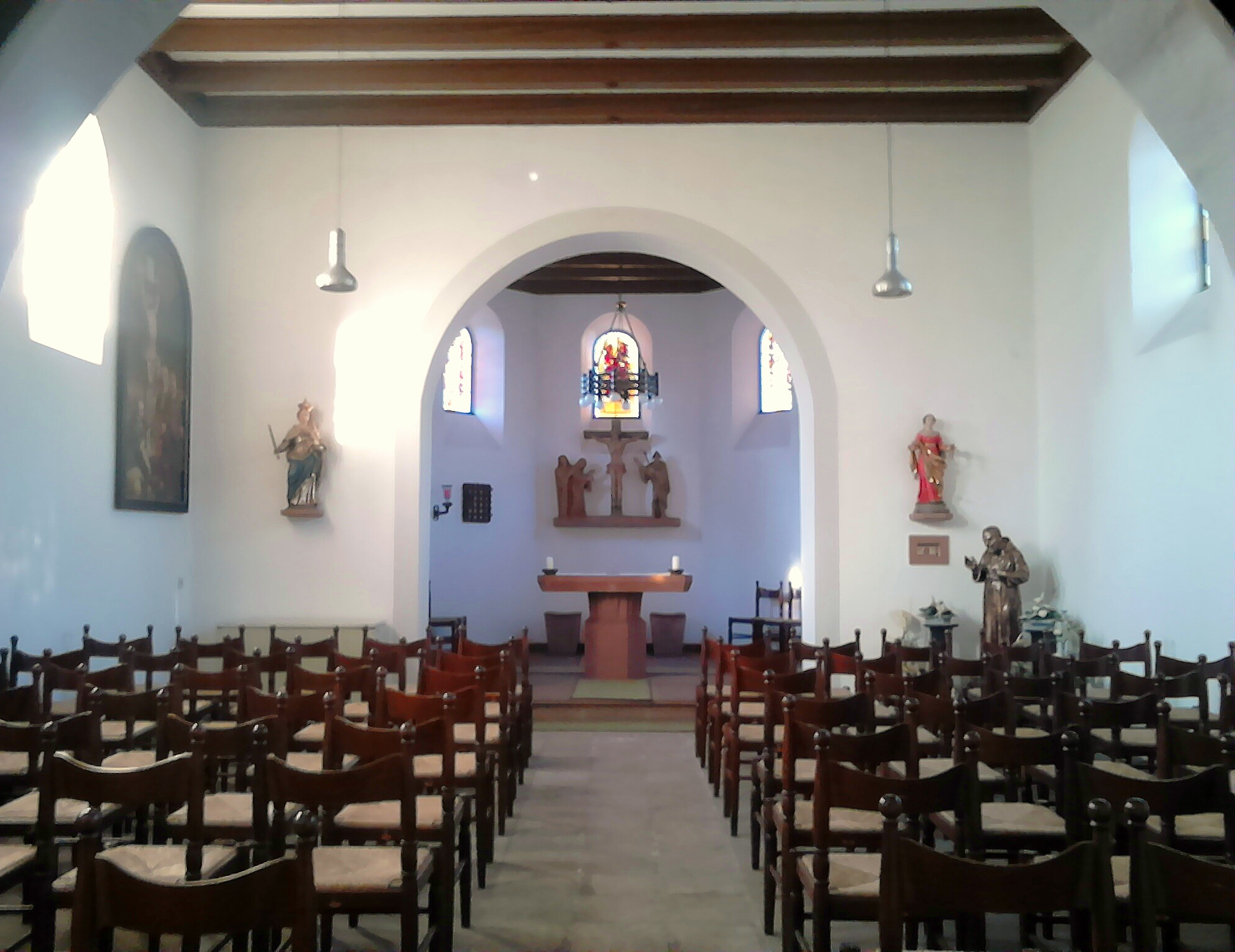 Apollonia-Kapelle, Fraulautern, Germany